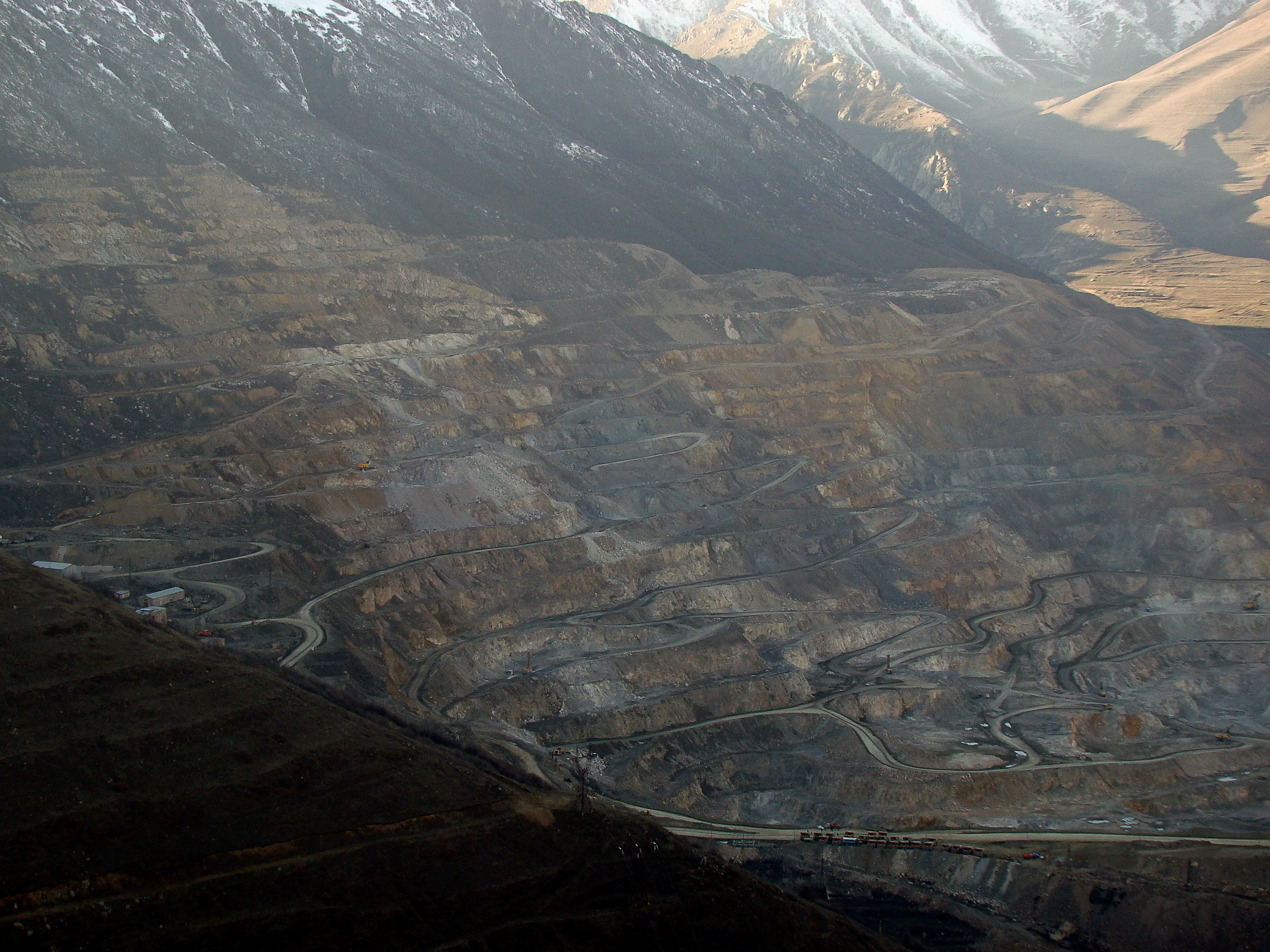 View of the Kajaran Copper-Molybdenum open-pit mine in Armenia's southern province of Syunik.